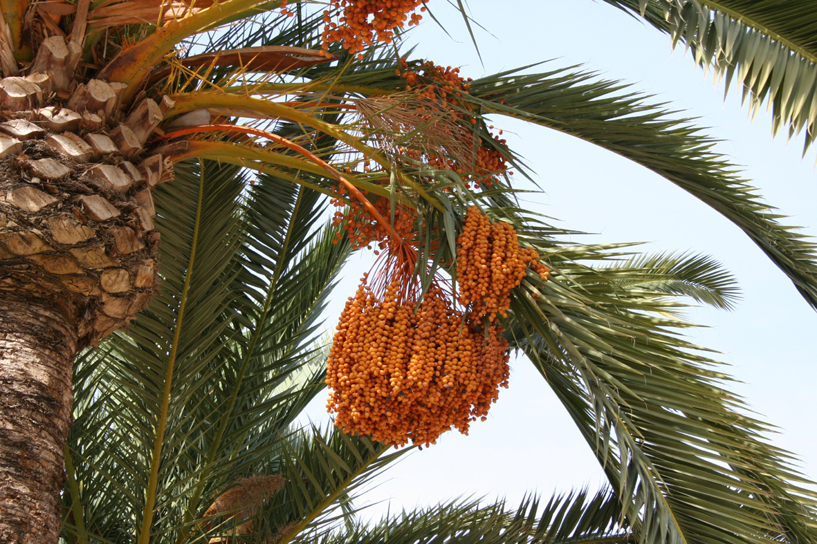 Phoenix dactylifera from Murcia, Spain